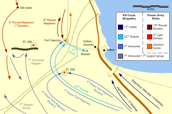 A map showing the first day of Operation Battleaxe